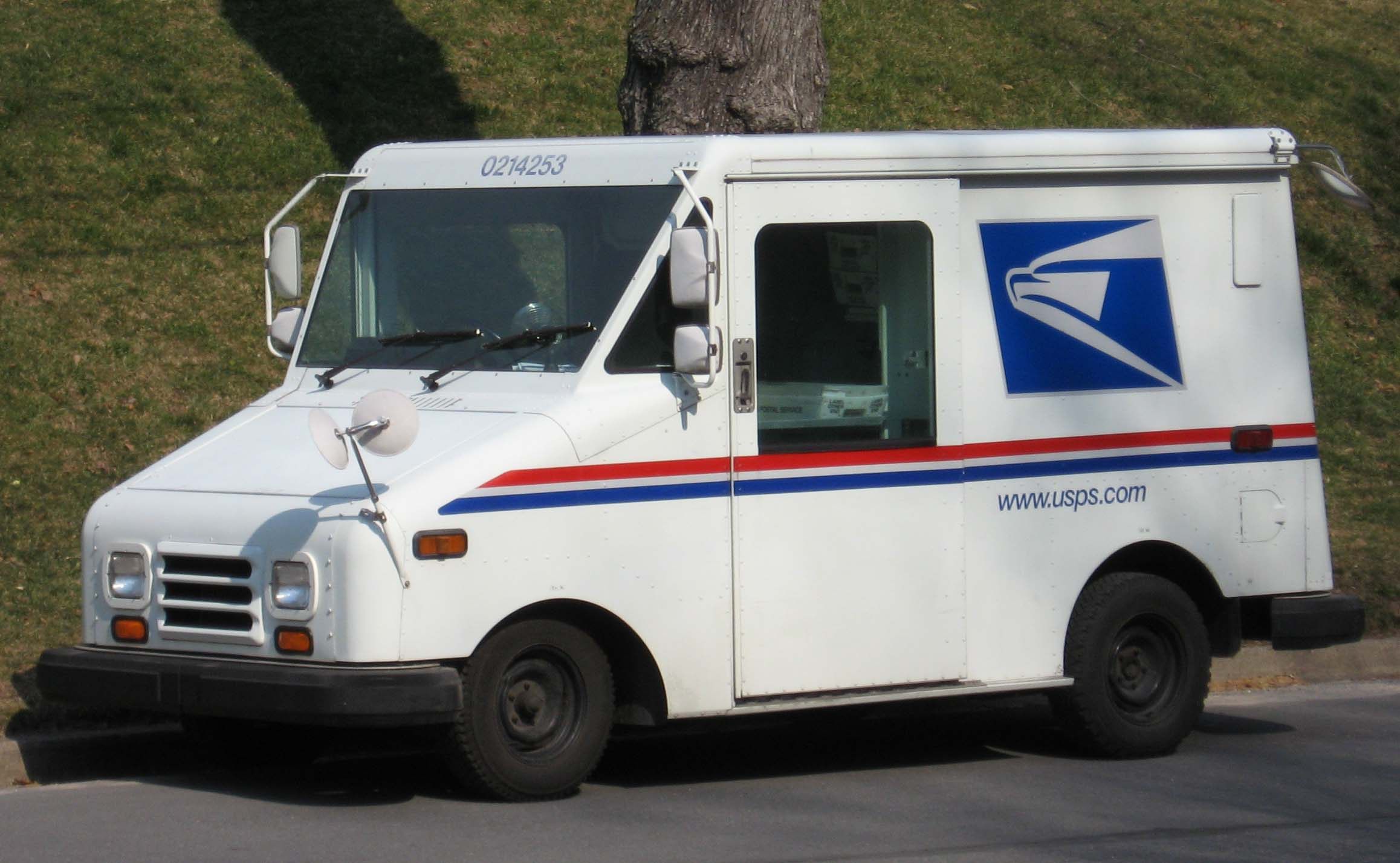 Grumman LLV photographed in USA.